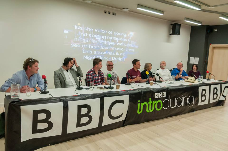 Andrew chairing a BBC Introducing Musicians' Masterclass. Panellists include The Pretenders, Dodgy and Mott The Hoople